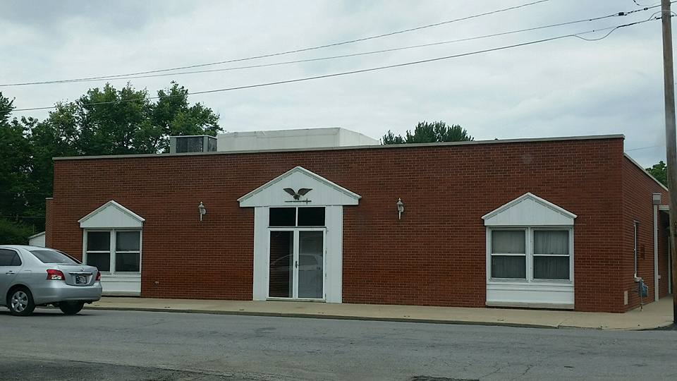 Picture of Branham Tabernacle, 804 Penn St., Jeffersonville, IN